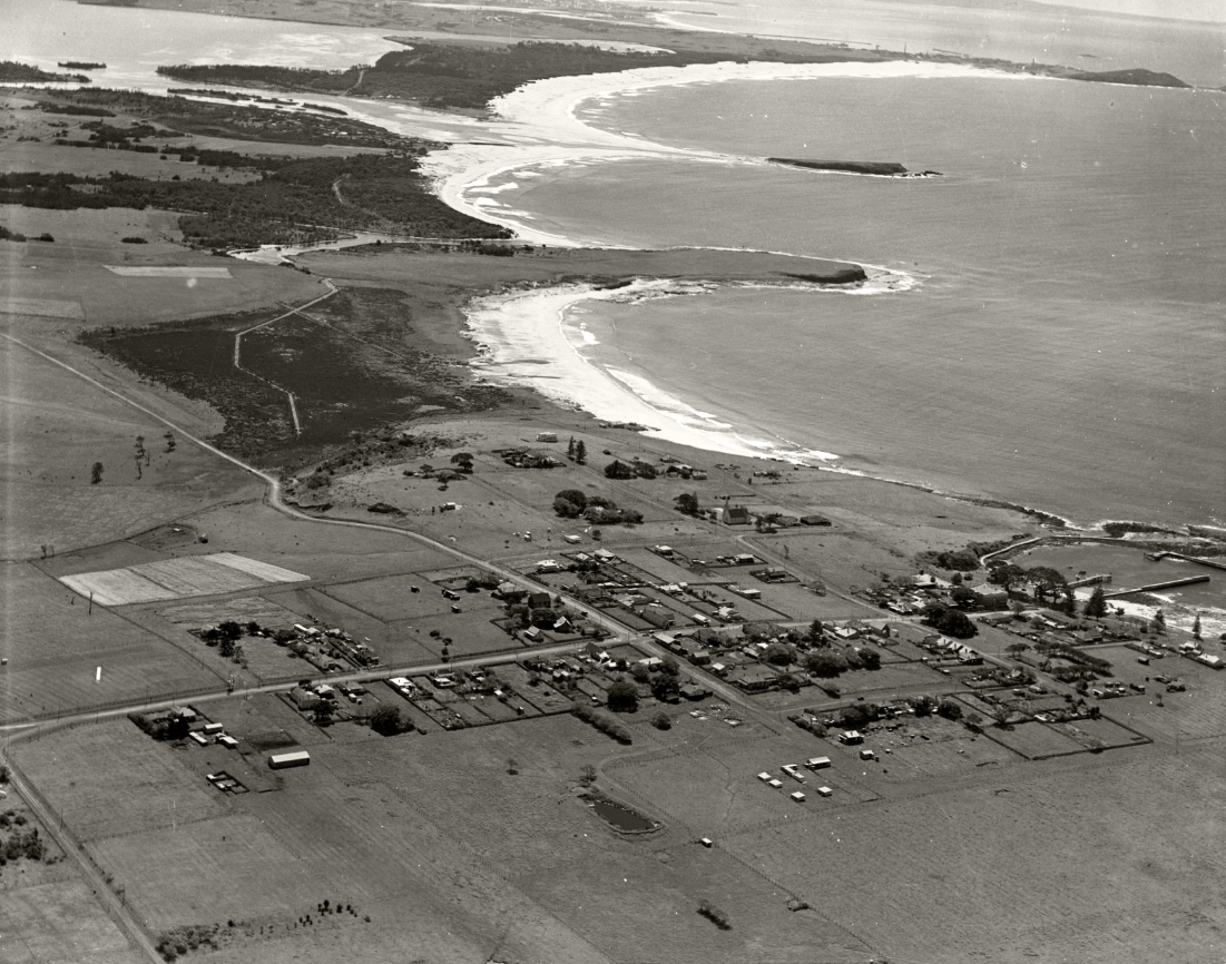 [RAHS/Adastra Aerial Survey Collection]